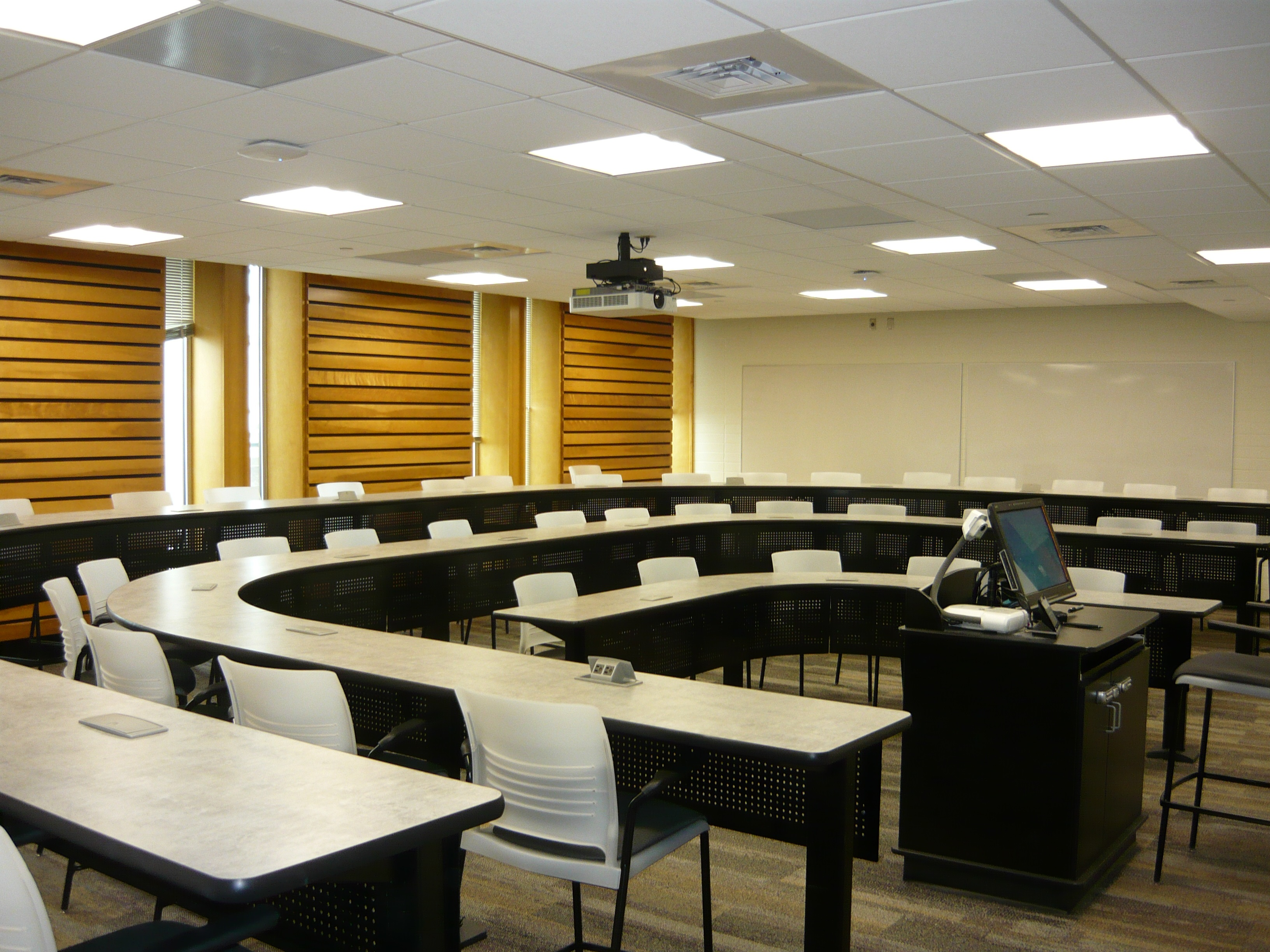 A typical classroom (Room 243) in the Edwards School of Business, University of Saskatchewan, 25 Campus Drive, Saskatoon, Saskatchewan, Canada. Original building opened in 1968. Classroom remodeled in 2016.